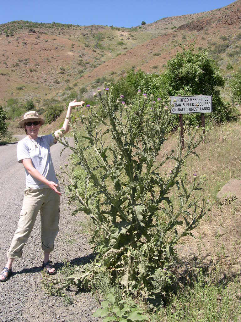 Onopordum acanthium in southwest Idaho, its generous size being demonstrated by Leigh Greenwood, field technician for the BLM